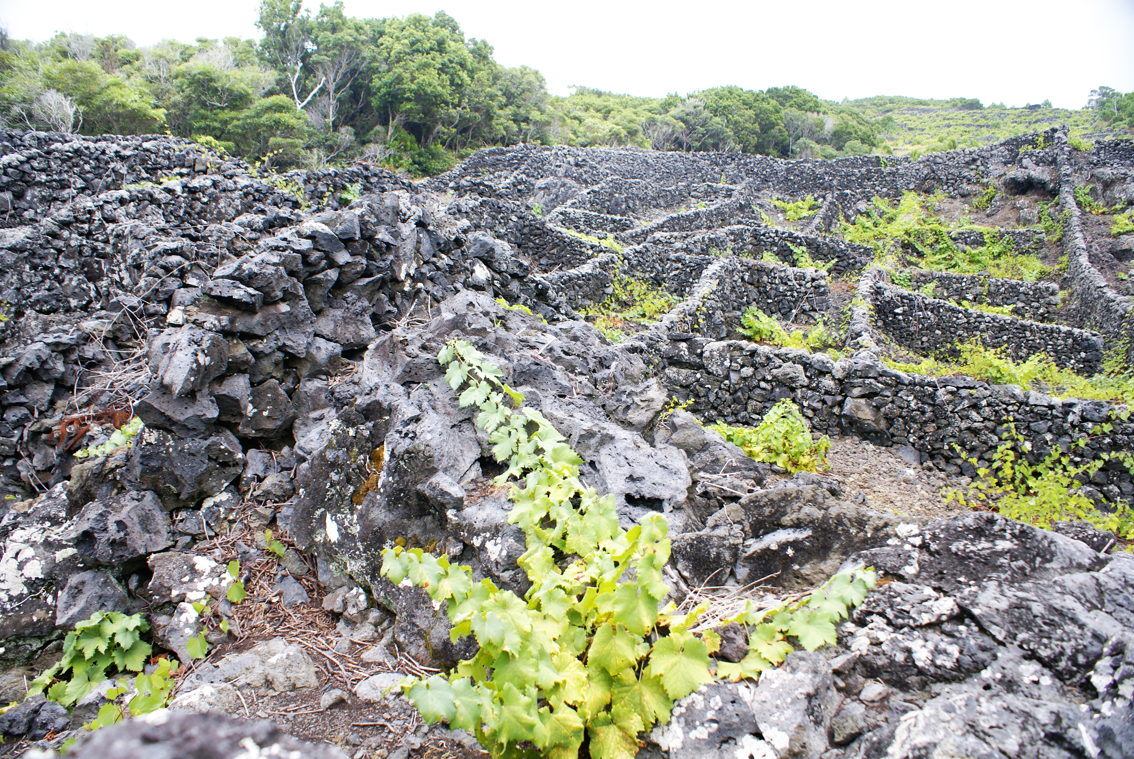 Paisagem Protegida de Interesse Regional da Cultura da Vinha da ilha do Pico, campos de vinha, Santa Luzia, Concelho de São Roque, Açores, Portugal